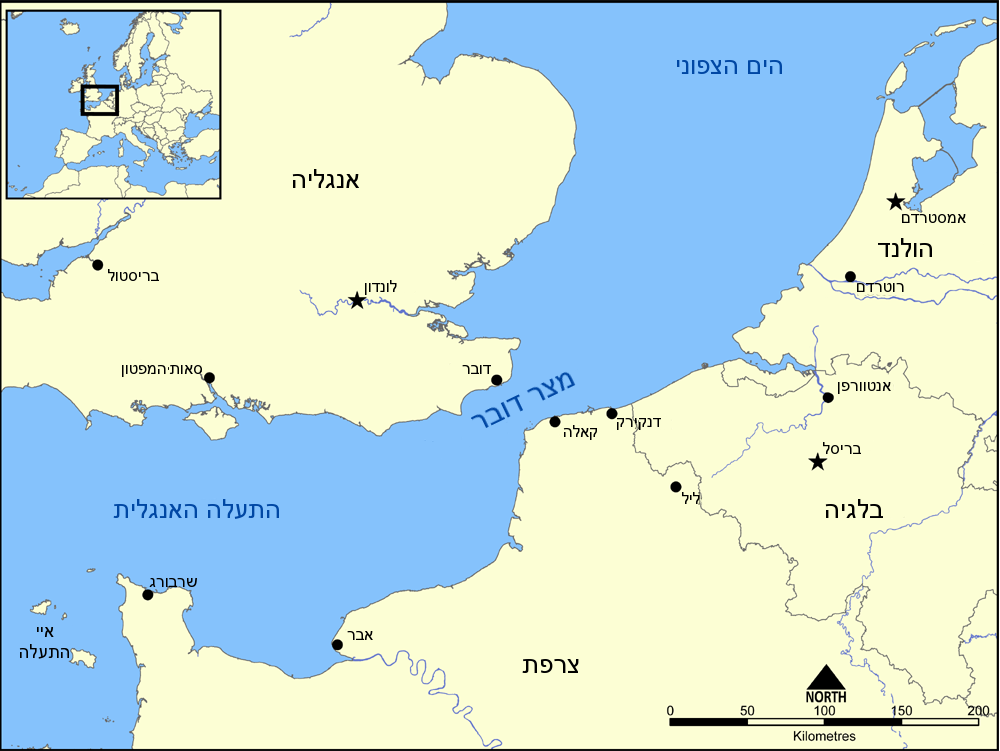 Hebrew version of Image:Strait of Dover map.png, which was uploaded by NormanEinstein.